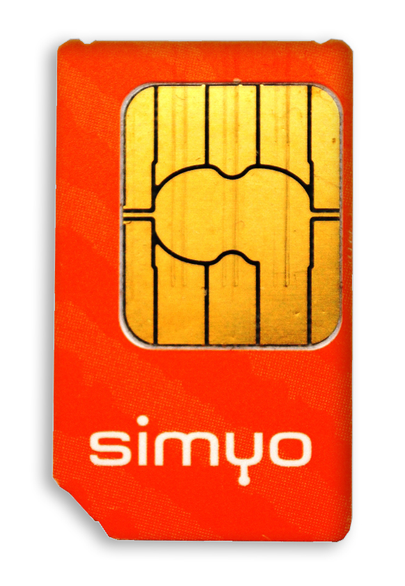 SIM Simyo